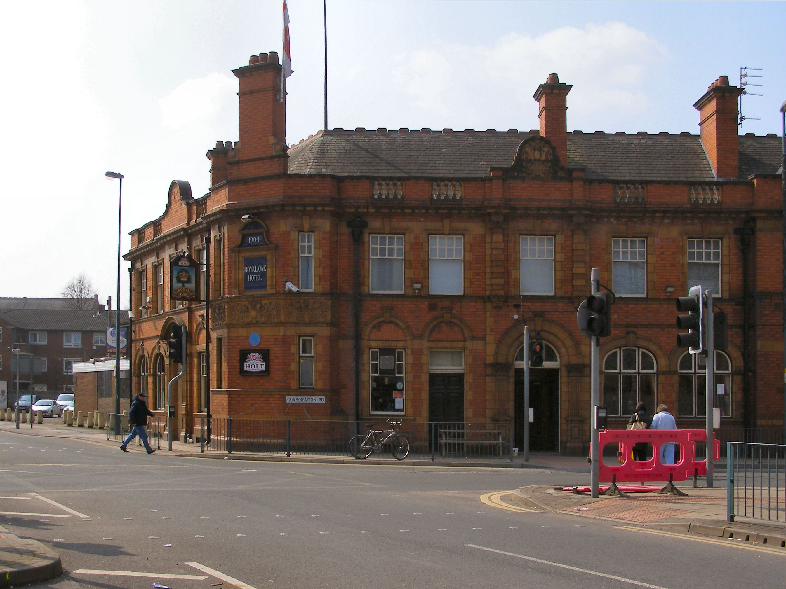 Royal Oak Hotel